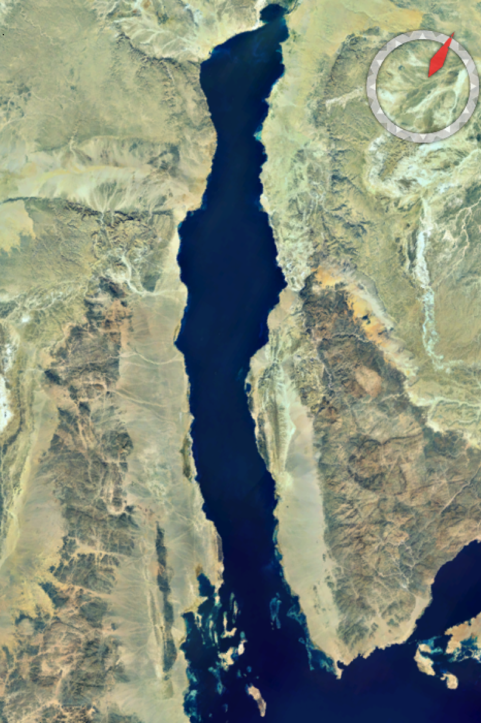 Screen shot of Gulf of Suez from NASA WorldWind